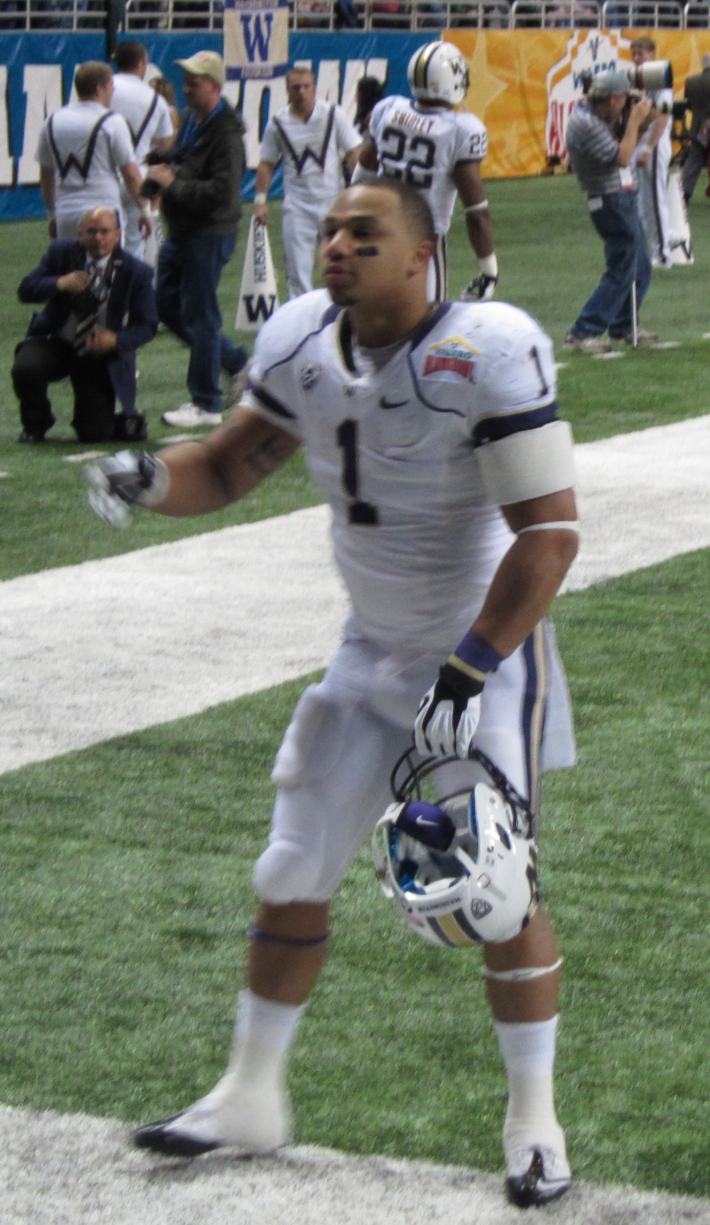 Chris Polk UW at begin of the Alamo Cup